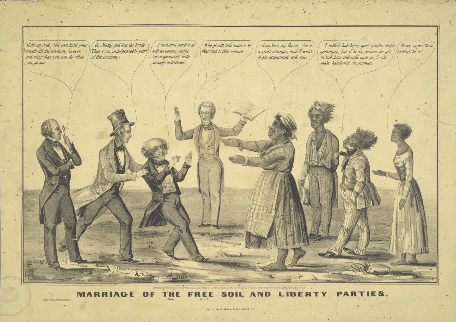 1848 political caricature which savagely satirizes the fact that though the presidential nominee of the newly-formed Free Soil Party, Martin Van Buren, was not himself an abolitionist, he was receiving the support of many abolitionists who had formerly been involved with the Liberty Party. To represent this, Martin van Buren (left of center) is shown symbolically marrying a black woman. His speech bubble shows him saying "politics…makes one acquainted with strange bedfellows" (a variation on a proverb). The figure on the far left is presumably Van Buren's son, John Van Buren, while the presiding clergyman in the center ("BFB") is probably Benjamin F. Butler... Collection: Cornell University Collection of Political Americana, Cornell University Library Repository: Susan H. Douglas Political Americana Collection, #2214 Rare & Manuscript Collections, Cornell University Library, Cornell University Title: Marriage of the Free Soil and Liberty Parties Political Party: Liberty Election Year: 1848 Date Made: 1848 Measurement: Print: 13 x 18 1/4 in.; 33.02 x 46.355 cm Classification: Prints Persistent URI: There are no known U.S. copyright restrictions on this image. The digital file is owned by the Cornell University Library which is making it freely available with the request that, when possible, the Library be credited as its source.